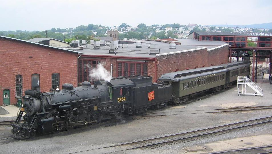 Photo of Canadian National steam engine #3254 pulling two passenger cars at Steamtown National Historic Site in Scranton, Pennsylvania, August 2005. Background buildings are (l to r) locomotive repair shops, 1902/1937 roundhouse section, and museum.